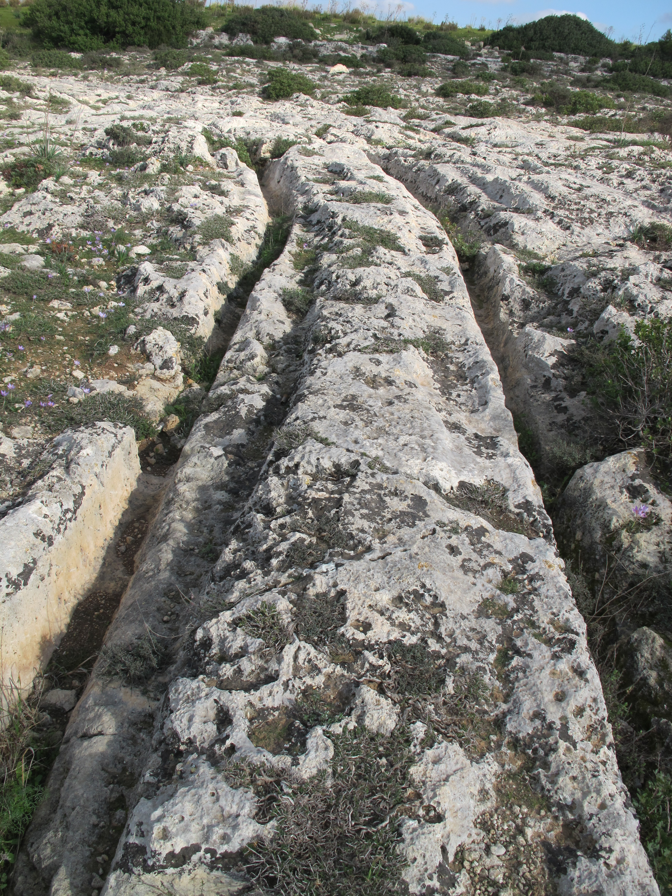 The so called "cart ruts" in the area of Għar il-Kbir